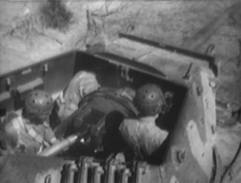 M10 crew at work.